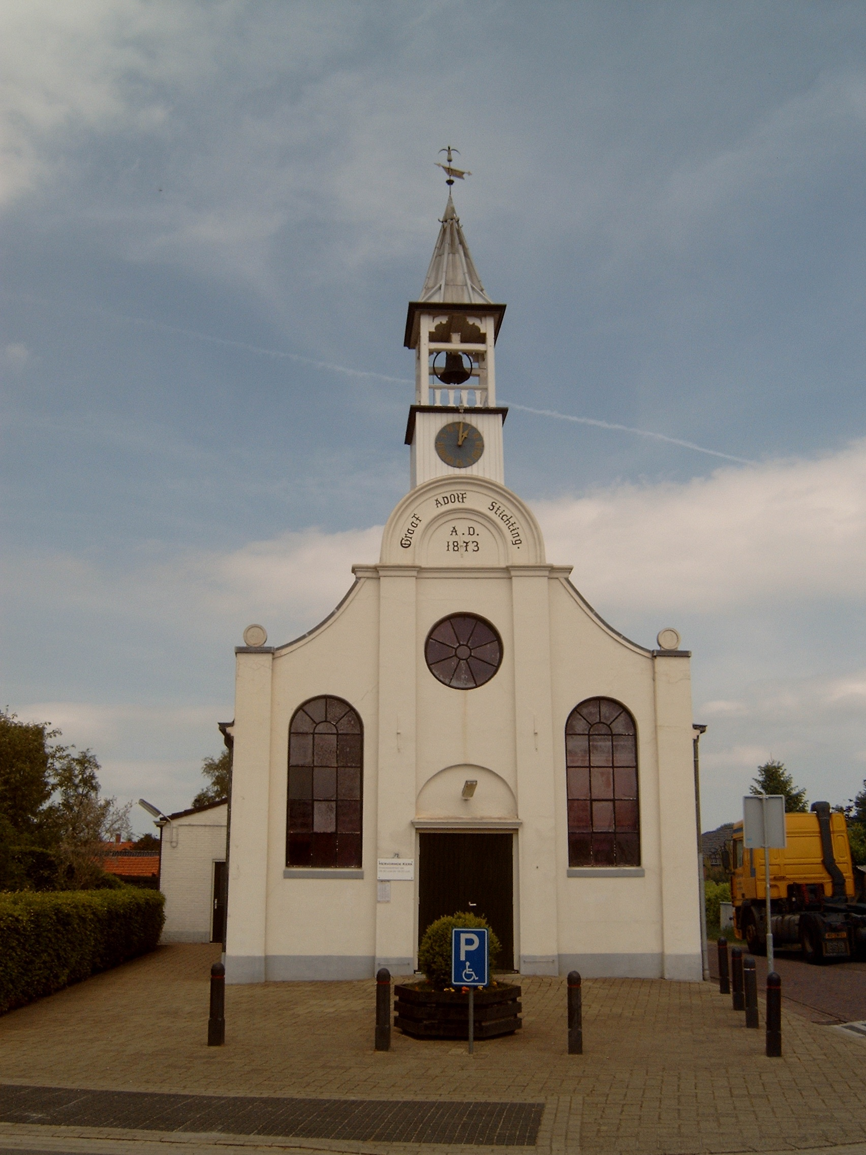 Heiligerlee, church